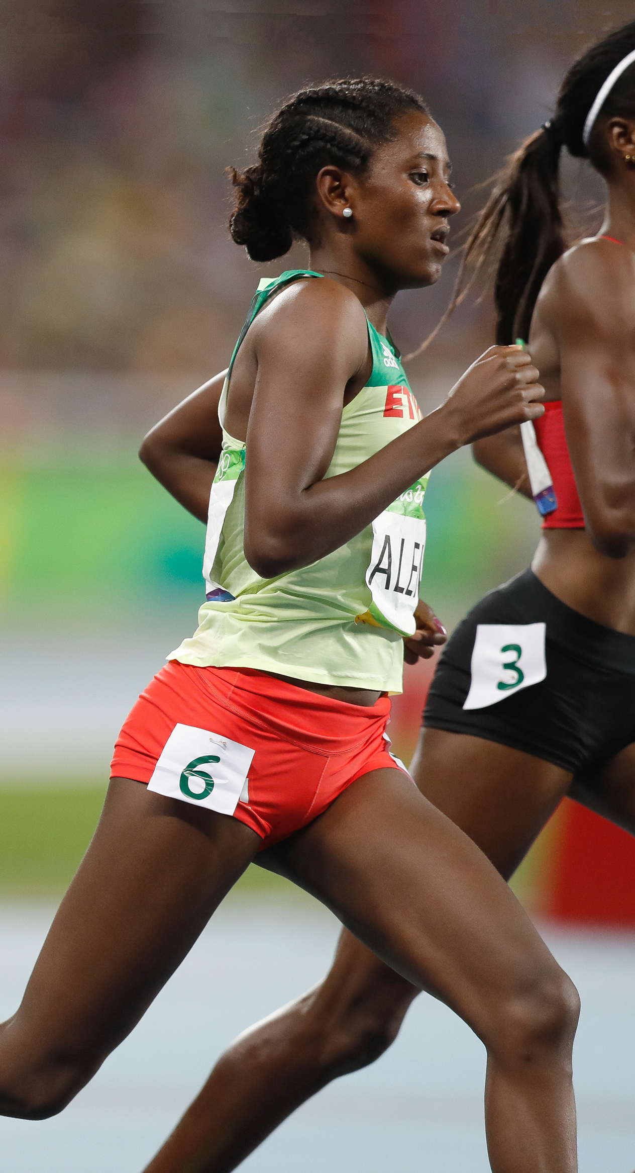 Rio de Janeiro - Semifinais dos 800m feminino nos Jogos Rio 2016, no Estádio Olímpico. (Fernando Frazão/Agência Brasil)